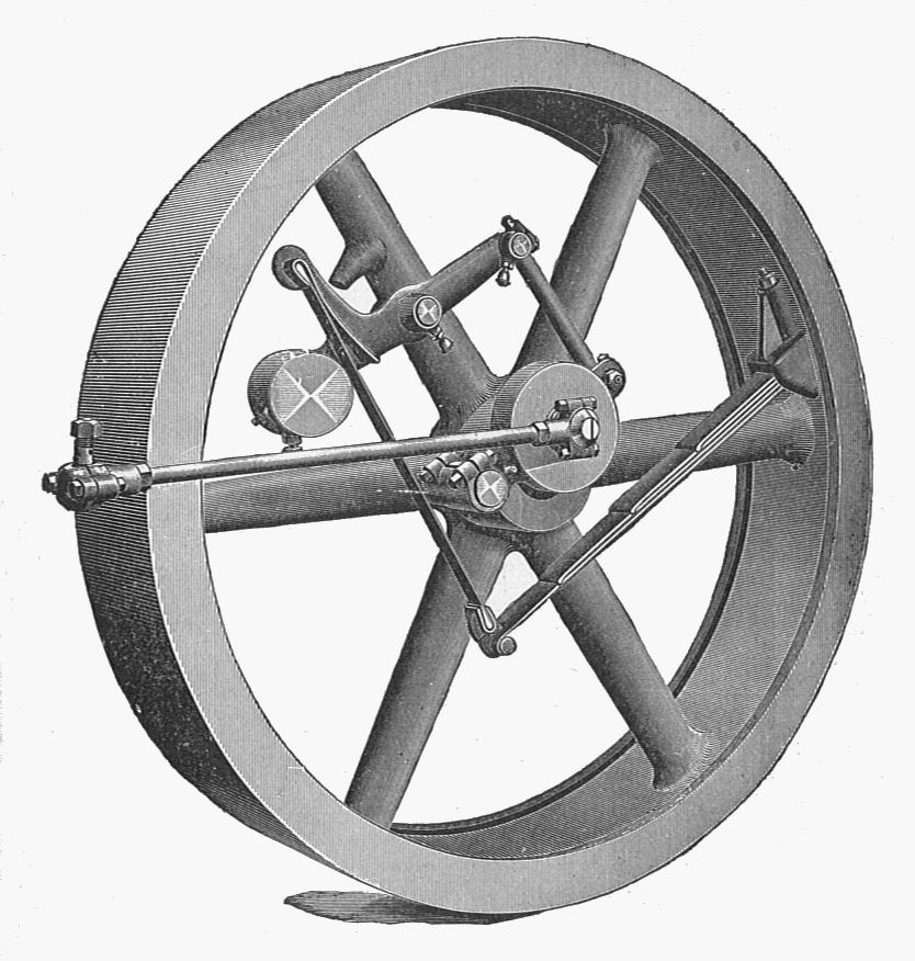 Ames automatic governor (New Catechism of the Steam Engine, 1904).jpg